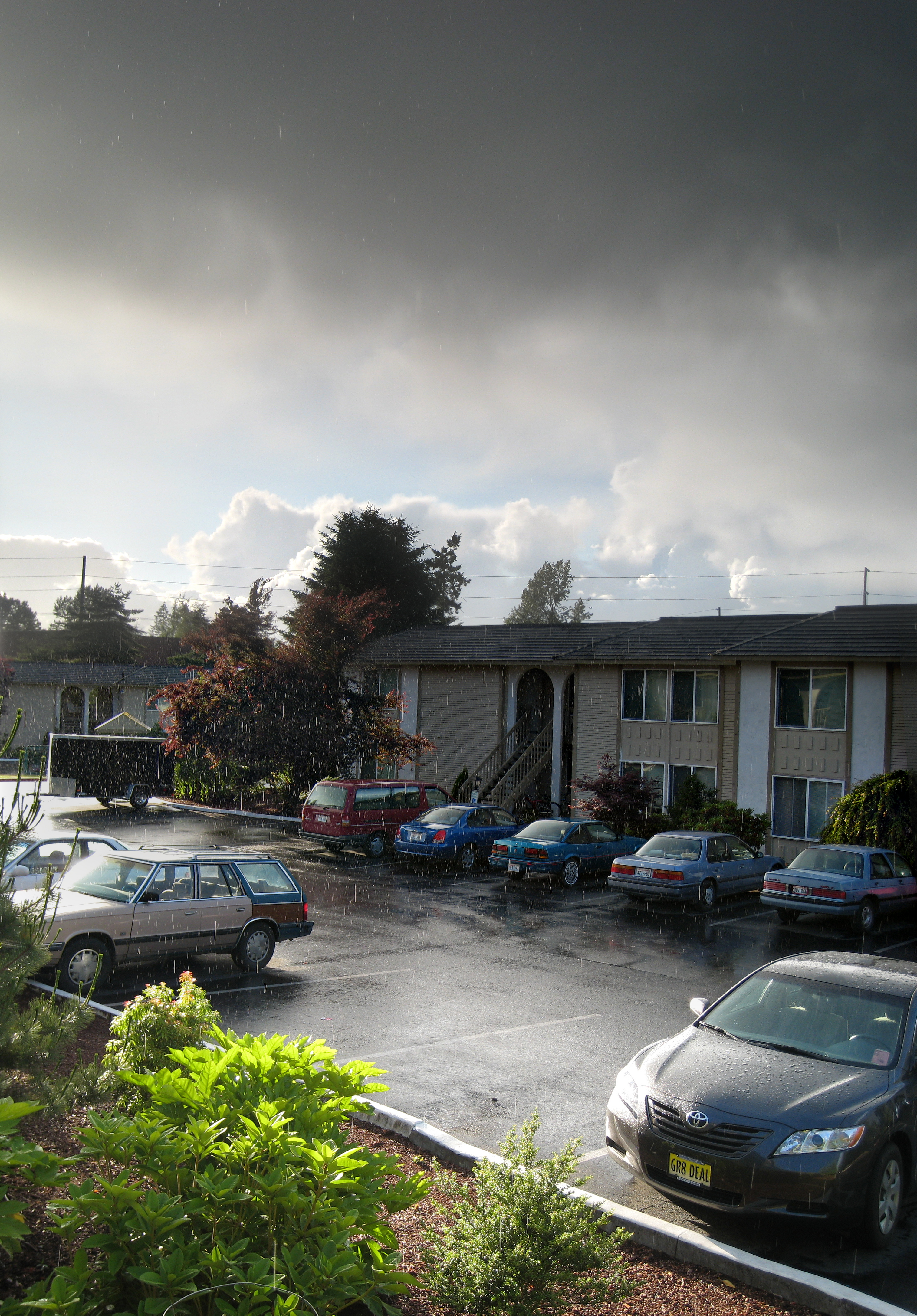 Sunshower in Olympia, Washington